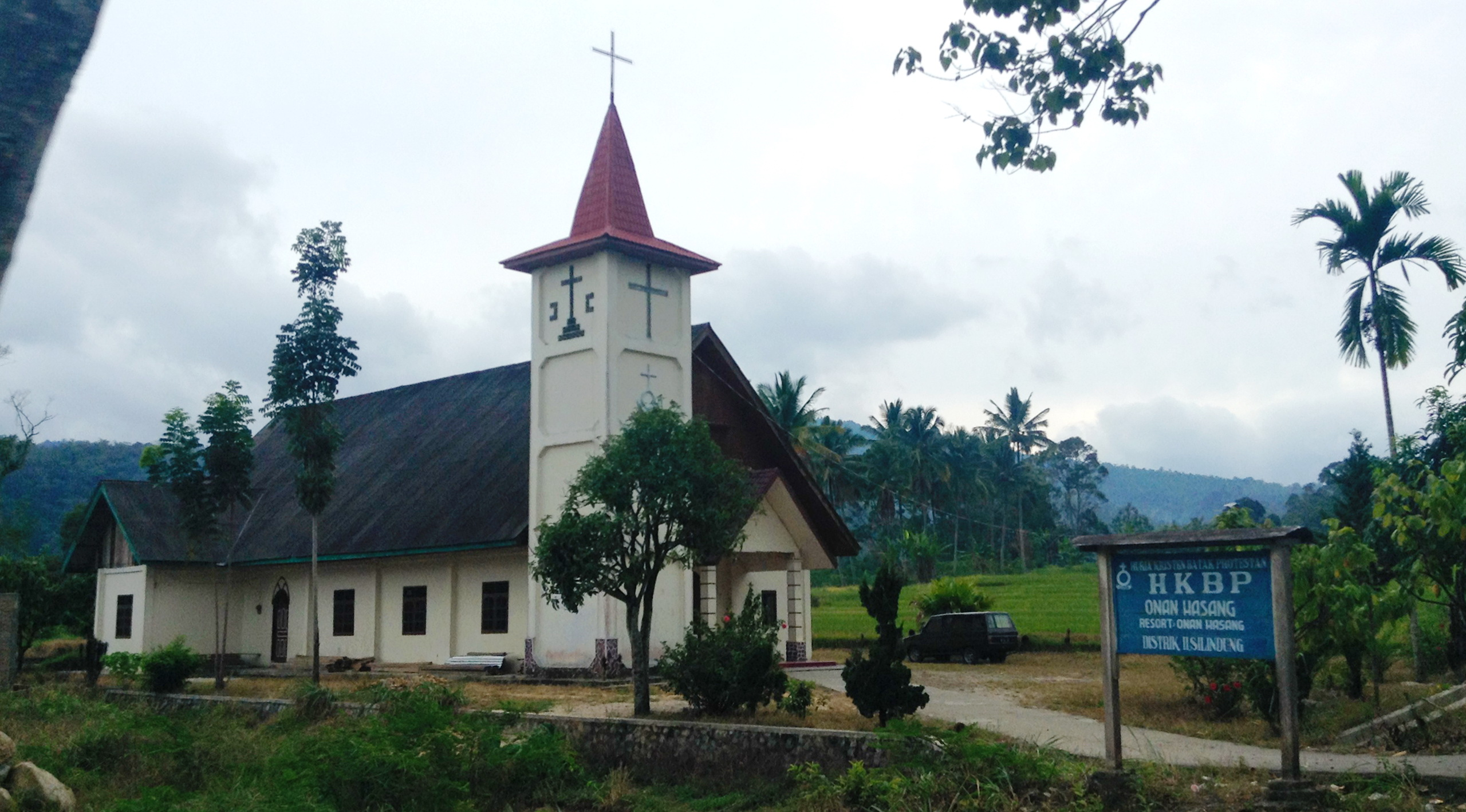 HKBP Onan Hasang, Church in Onan Hasang, Pahae Julu, North Tapanuli